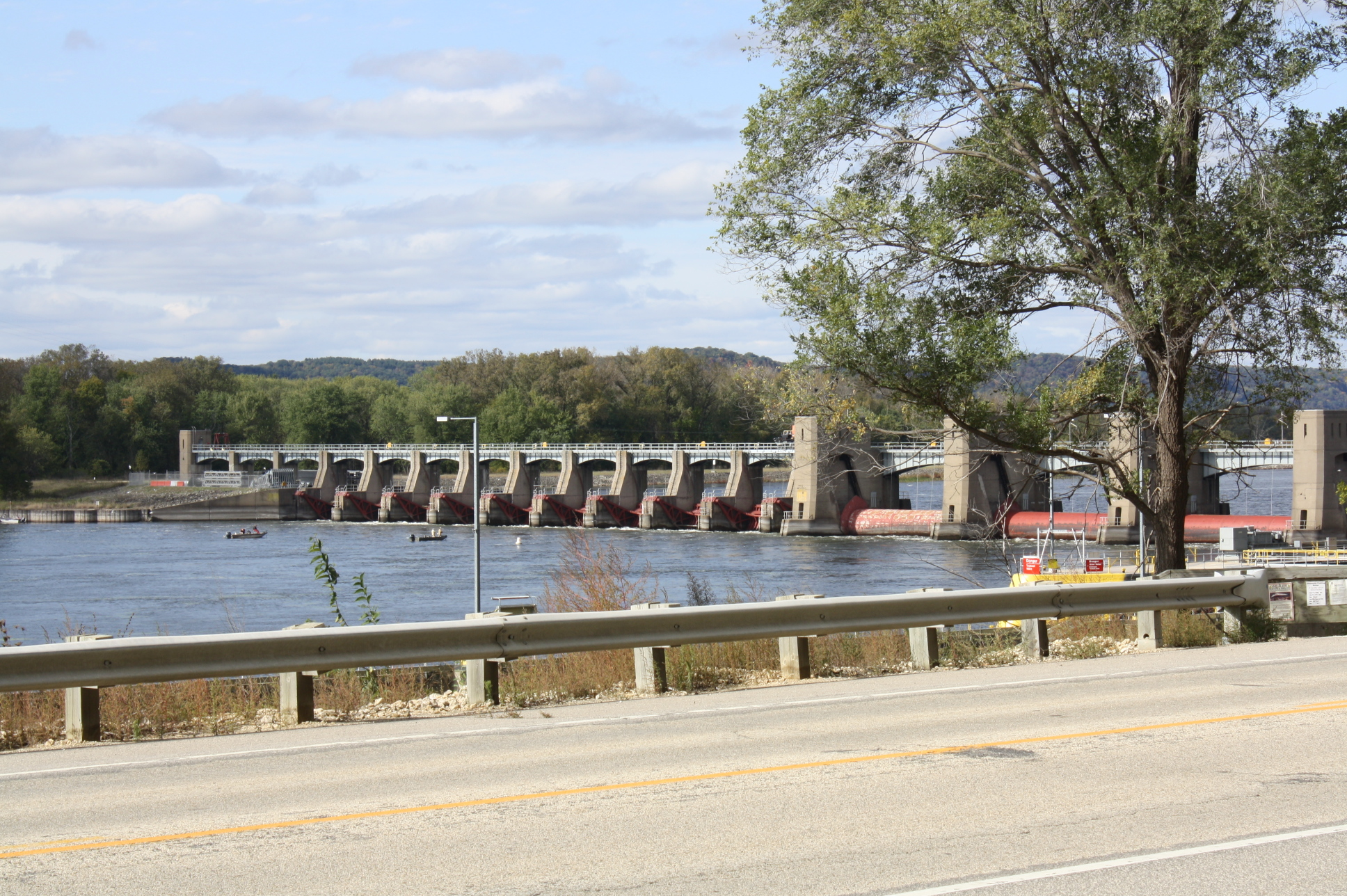 Looking northwest at the Lock and Dam No. 8 on the Mississippi River near Genoa, Wisconsin along Wisconsin Highway 35.